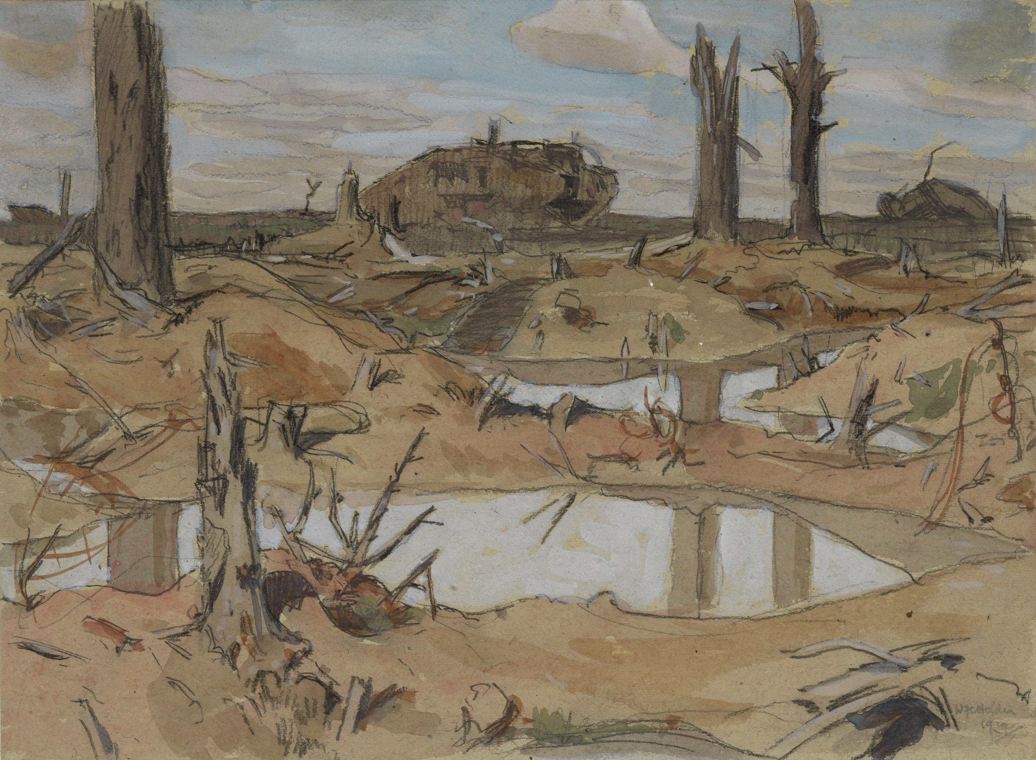 Inverness Copse image: a view of bomb damaged Inverness Copse on the Western Front; a landscape of mud, flooded shell holes, blasted trees and debris. On the horizon are two bombed out, abandoned British tanks.